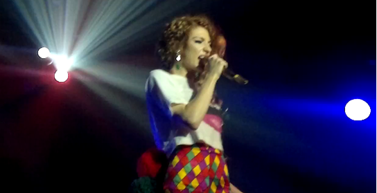 Picture I took of Roberts at G-A-Y. Quality is pretty low and I wasn't going to pop them on here originally but she has a lack of photos. I cropped out pictures of heads and her finger was over the camera so I cropped that out too.